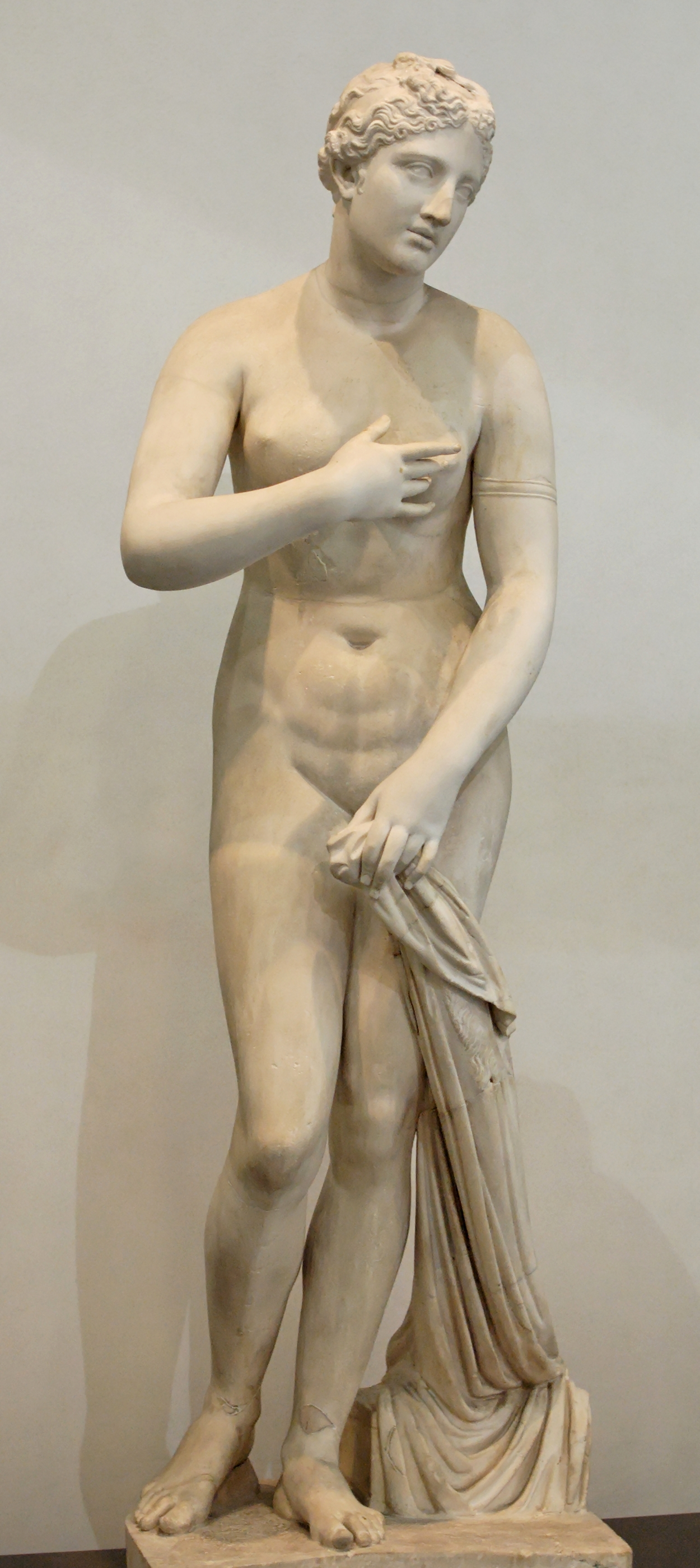 Aphrodite of Menophantos: Venus pudica, the best-known copy type of the Venus of Cnidus, here bearing the signature of the sculptor Menophantos: "work by Menophantos, after the Aphrodite in the Troad". Marble, Greek artwork, 1st century BC. From the church San Gregorio al Celio.